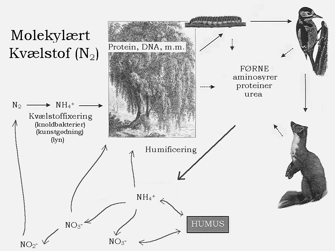 Nitrogen cycle